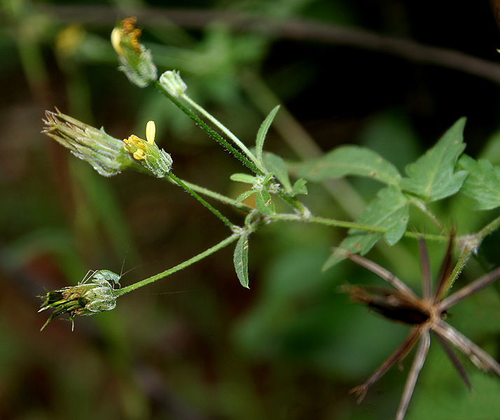 Bidens biternata (Lour.) Merr. & Sherff. (Syn. Coreopsis biternata)- Spanish Needles, yellow flowered blackjack, black jack, five leaved blackjack, beggar ticks • Hindi: चिर्चिट्टा Chirchitta- at Ananthagiri Hills, in Rangareddy district of Andhra Pradesh, India.